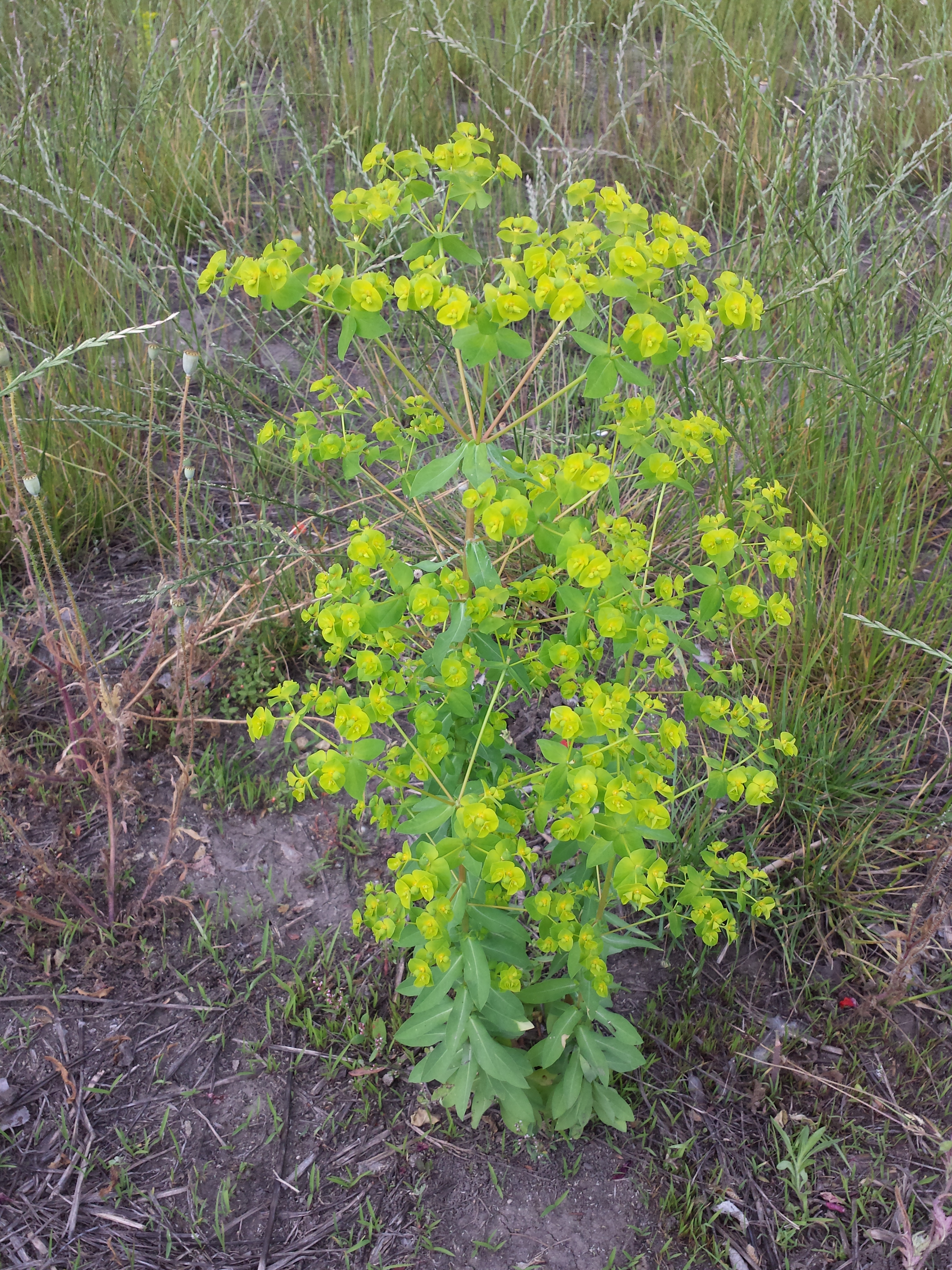 Habitus Taxonym: Euphorbia platyphyllos ss Fischer et al. EfÖLS 2008 ISBN 978-3-85474-187-9 Location: Neue Donau, Vienna-Floridsdorf - ca. 160 m a.s.l. Habitat: dry meadows